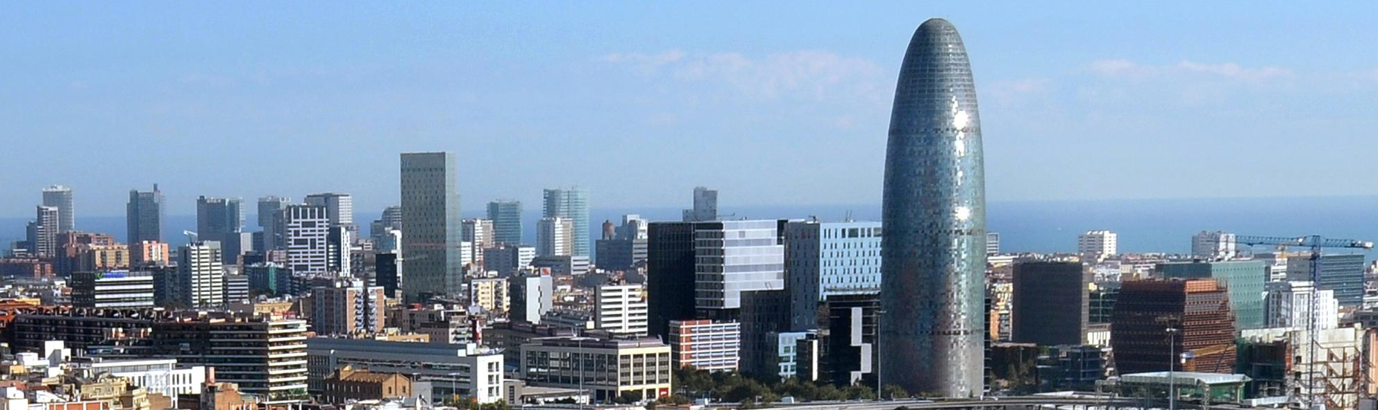 Barcelona, Spain, view over the city towards the coast with Torre Agbar, which is illuminate at night in the colours of the “F. C. Barcelona”